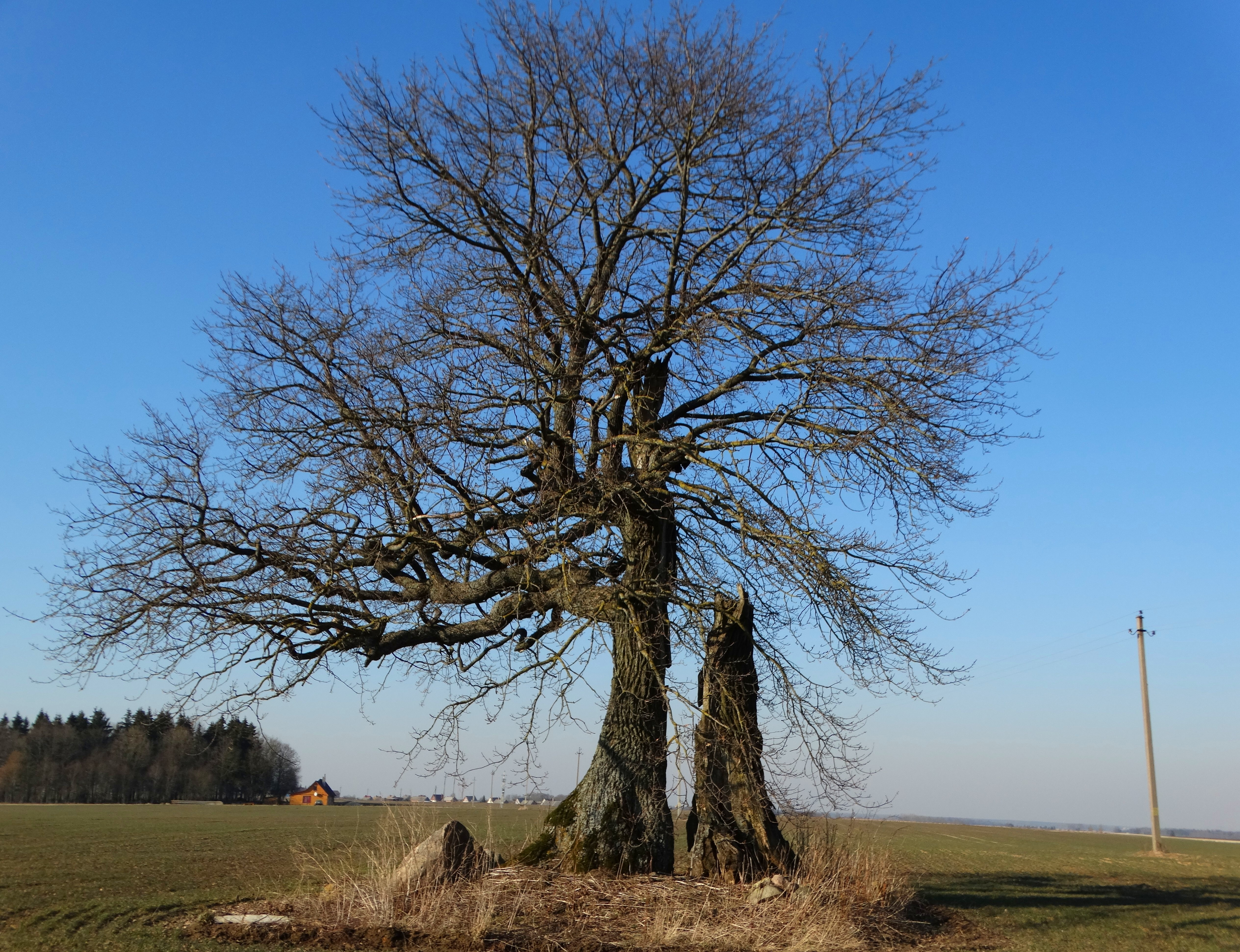 Oak, Kybarčiai, Šiauliai district, Lithuania